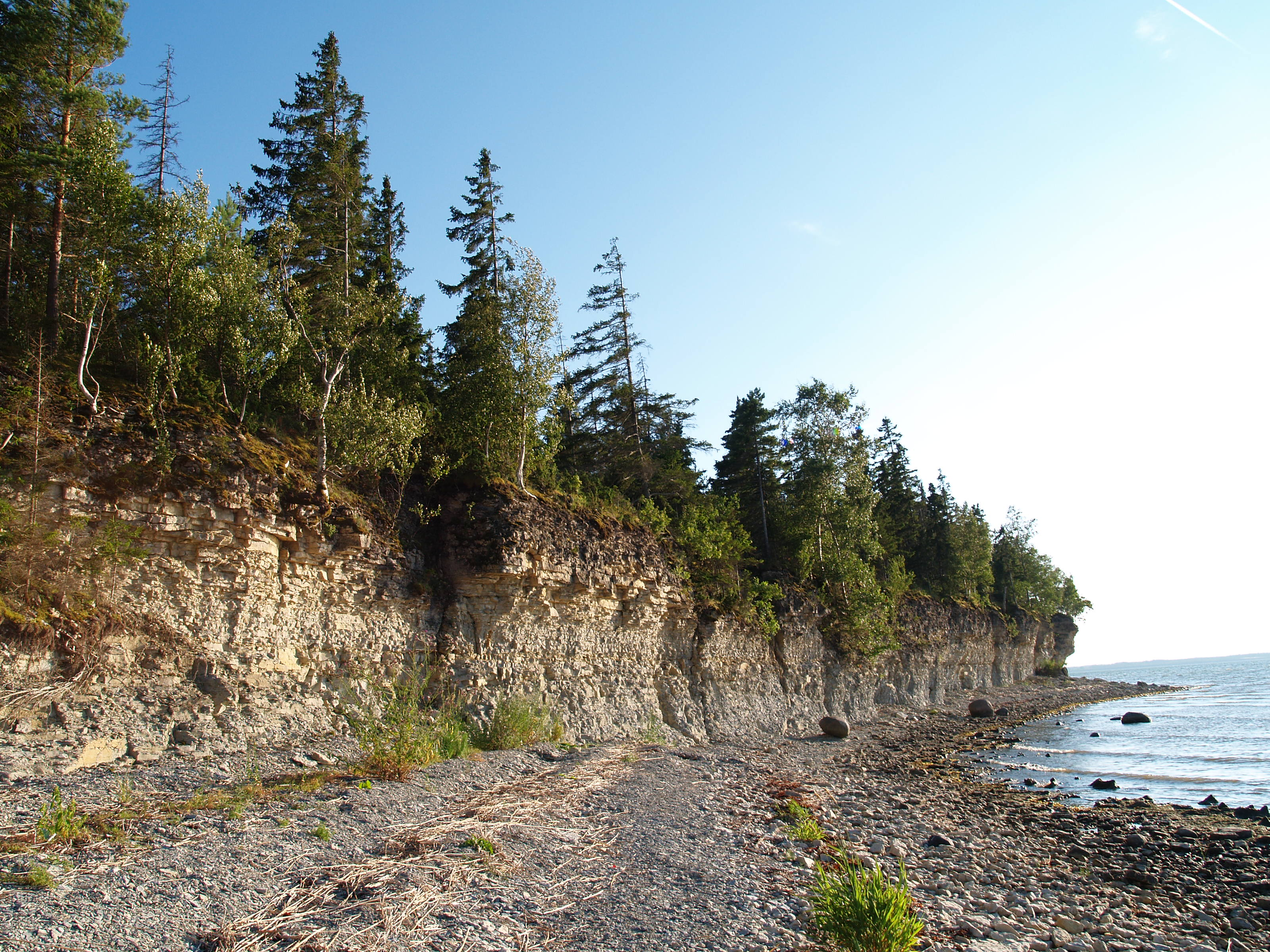 Cliff of Kesse in Kesselaid, Estonia.